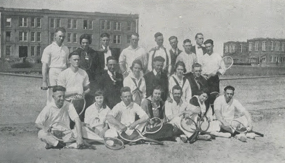 The Tennis Club at East Texas State Normal College.